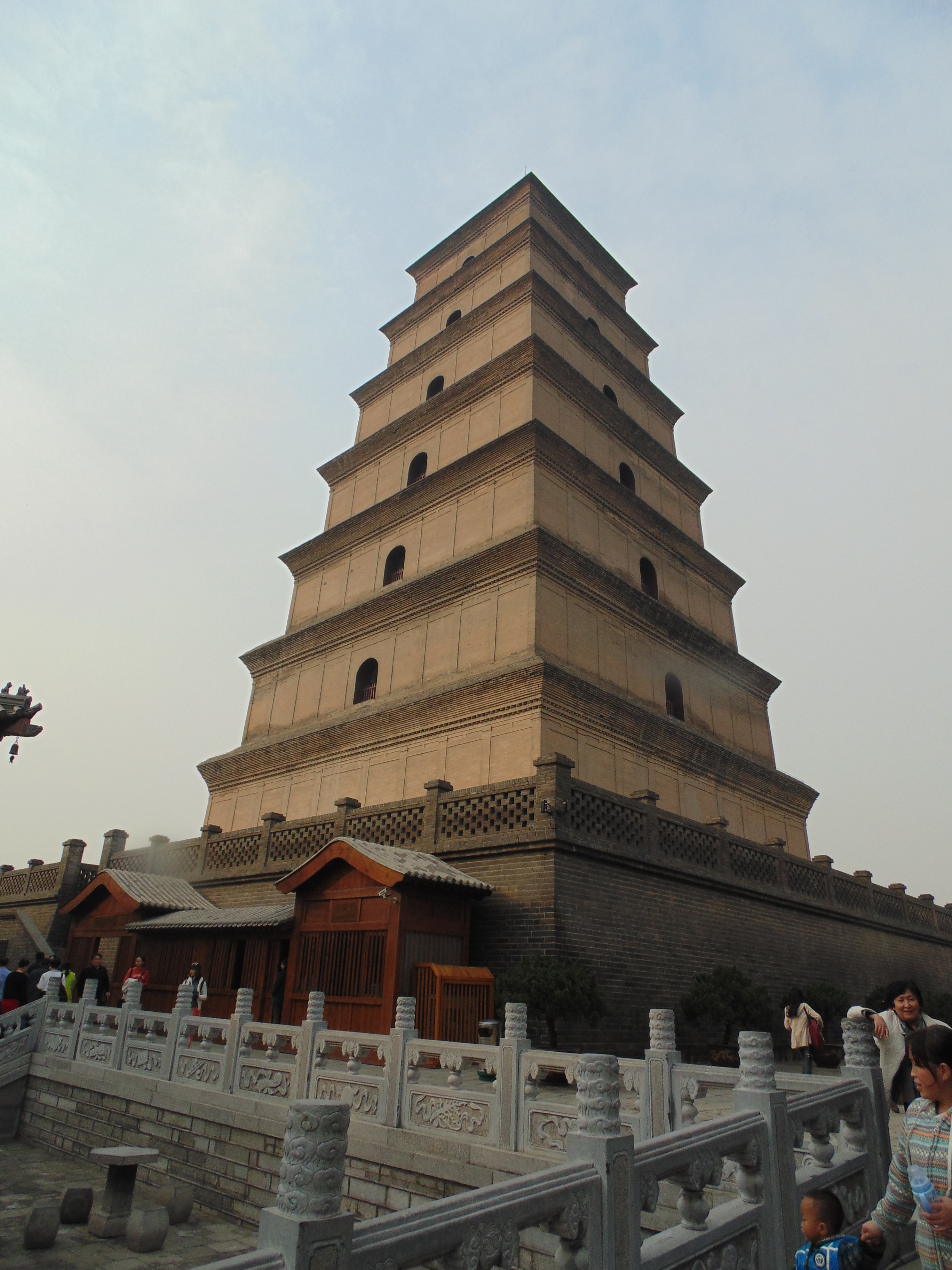 Big Goose Pagoda, Xian, China